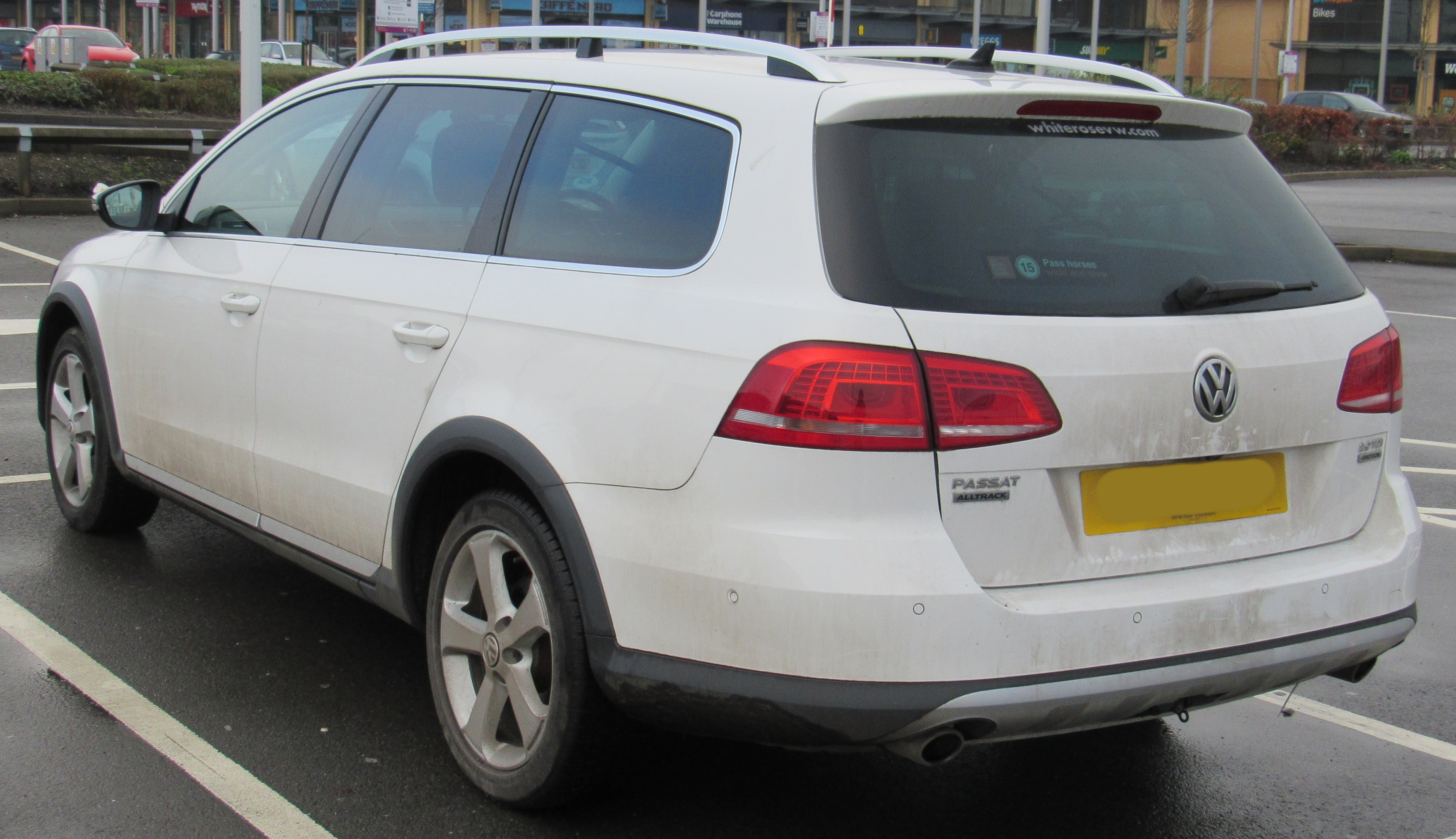 2013 Volkswagen Passat Alltrack TDi BMT 4MOTION 2.0 Rear Taken in Leamington Spa